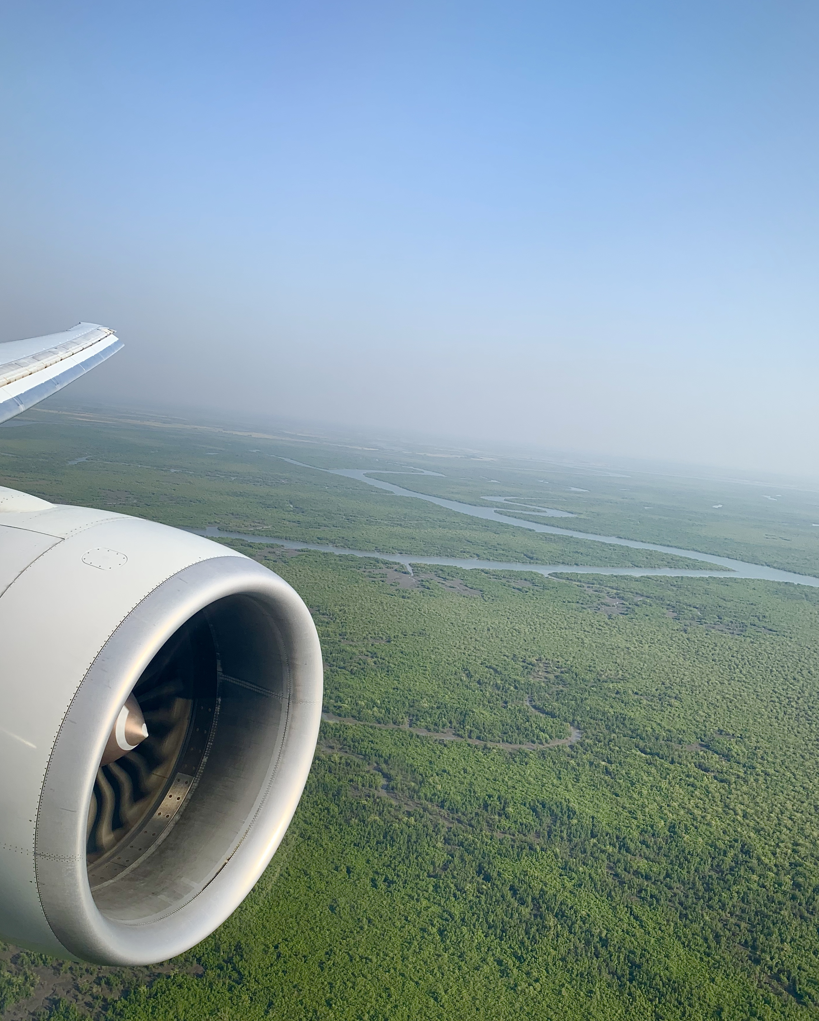 This is an image with the theme "Africa on the Move or Transport" from: Guinea